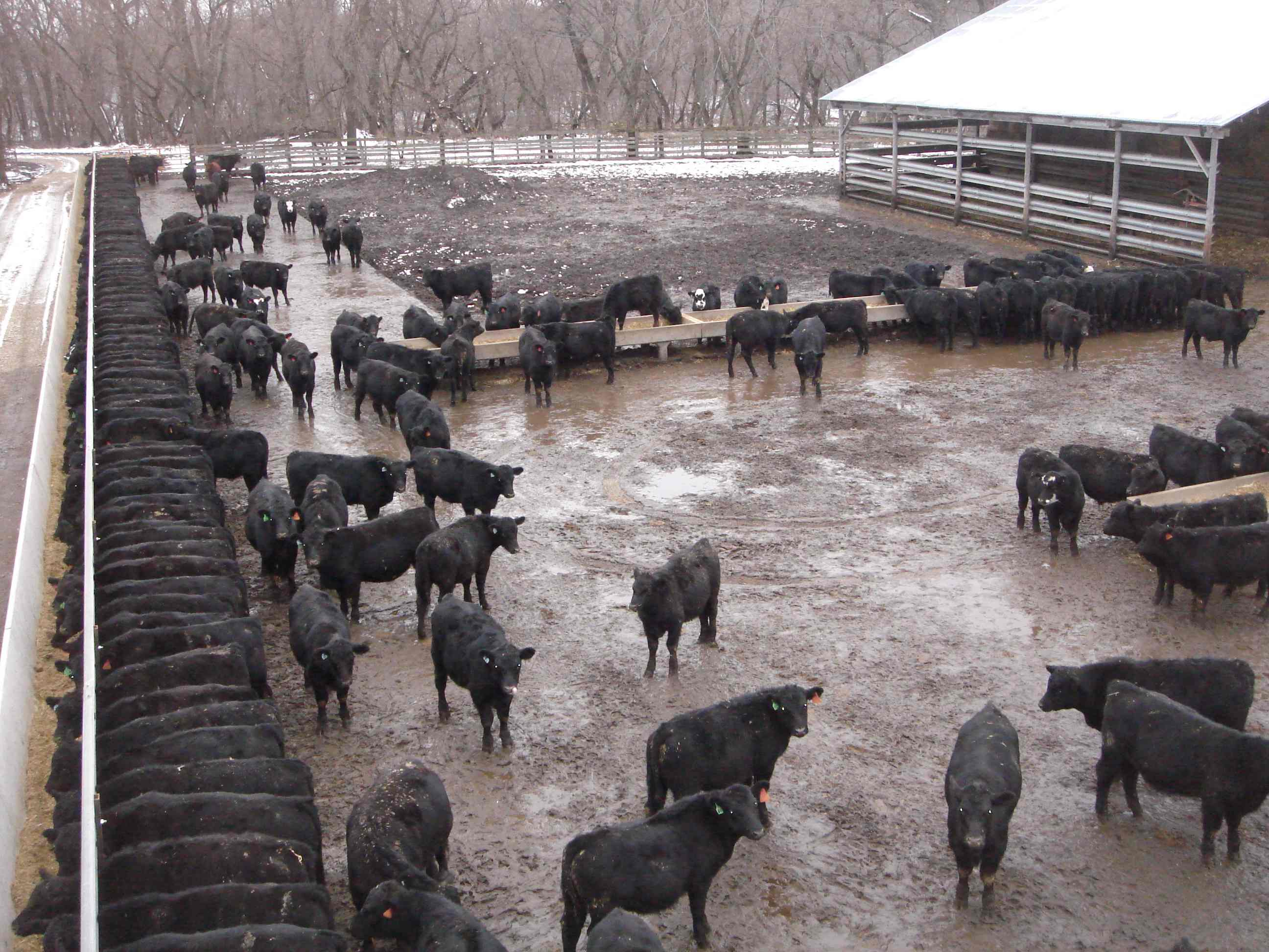 Typical cattle yard in Northern Iowa, USA, in Winter